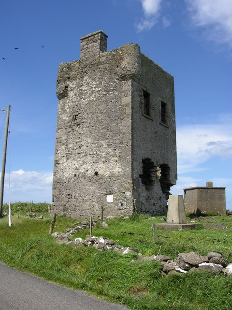 Rathlee Castle This was one of the many O'Dowd castles--the rulers of Tireragh Baroney until about 1450 AD